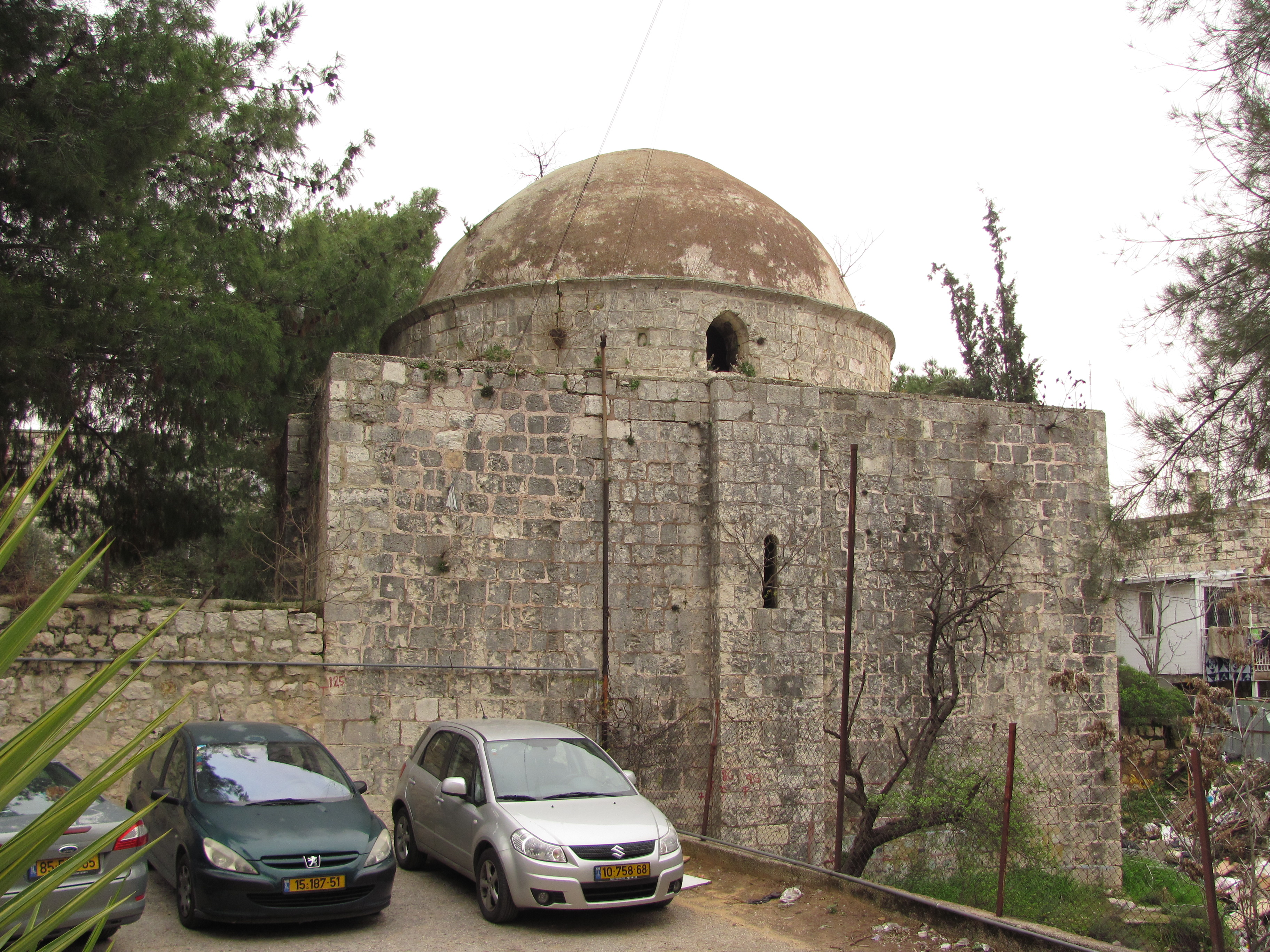 Tomb of Nebi Akasha, located between Straus and Yeshayahu Streets, Jerusalem